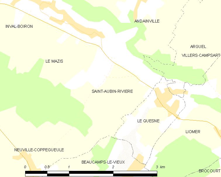 Map of French municipality Saint-Aubin-Rivière